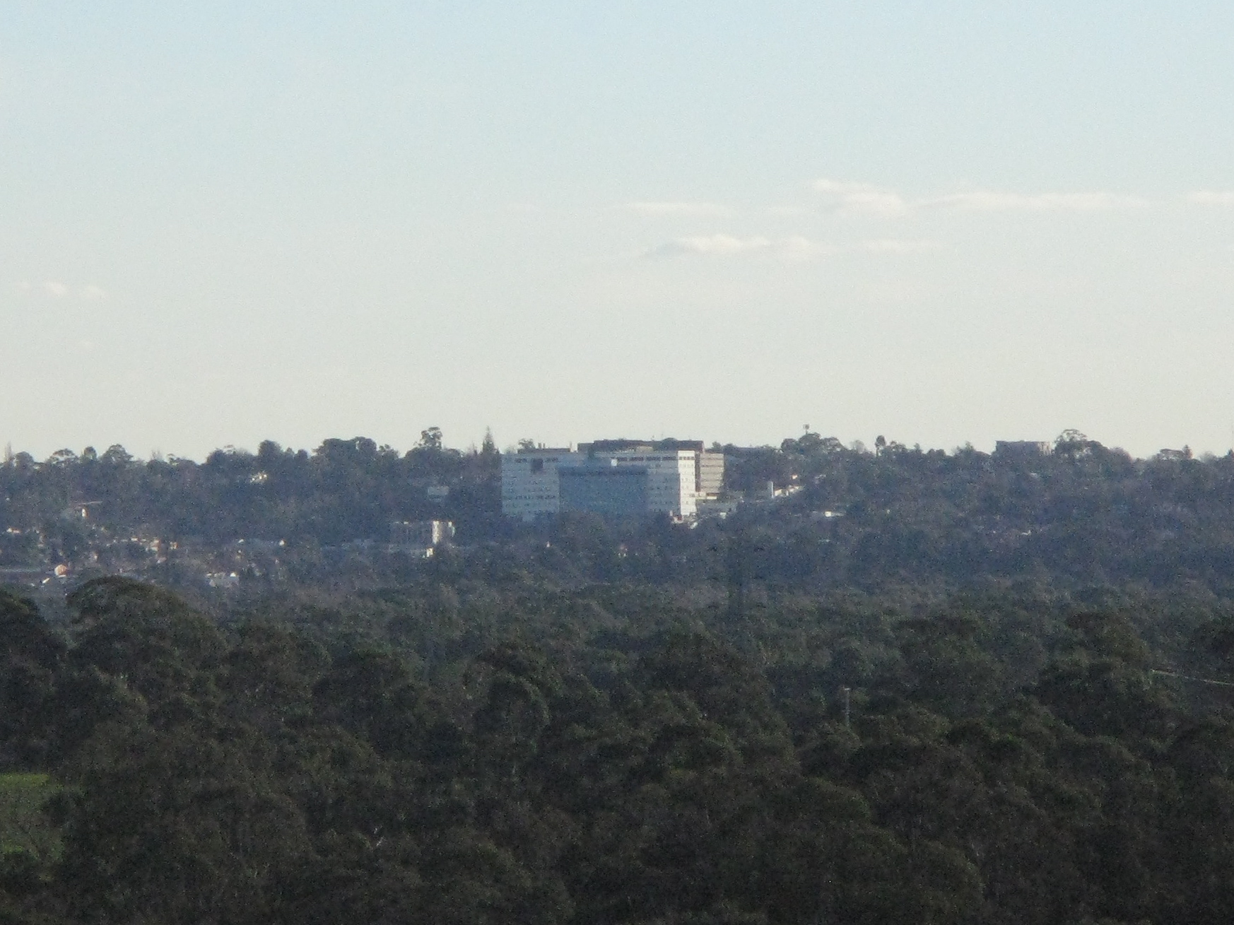 Heidelberg from Westerfolds Park, Melbourne, Australia. Photo taken by Nick carson in July 2009.